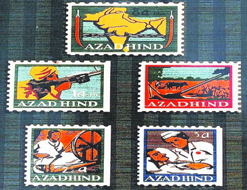 Adaptation of "Azad Hind Stamps", Booklet India 2016